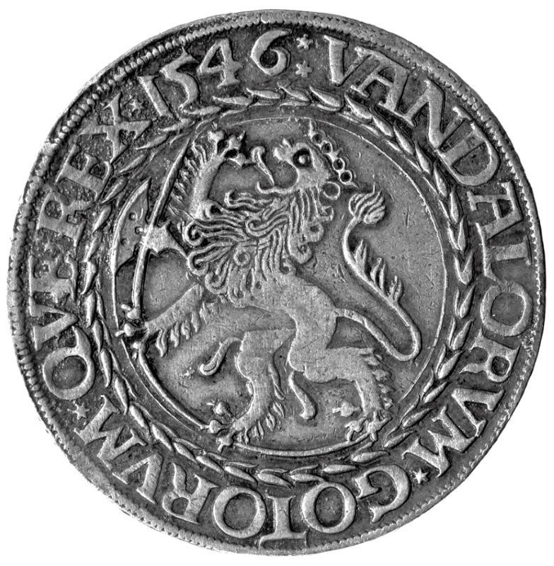 The back side of Gimsøydaleren, norwegian silver coin from 1546. Shows the norwegian coat of arms.